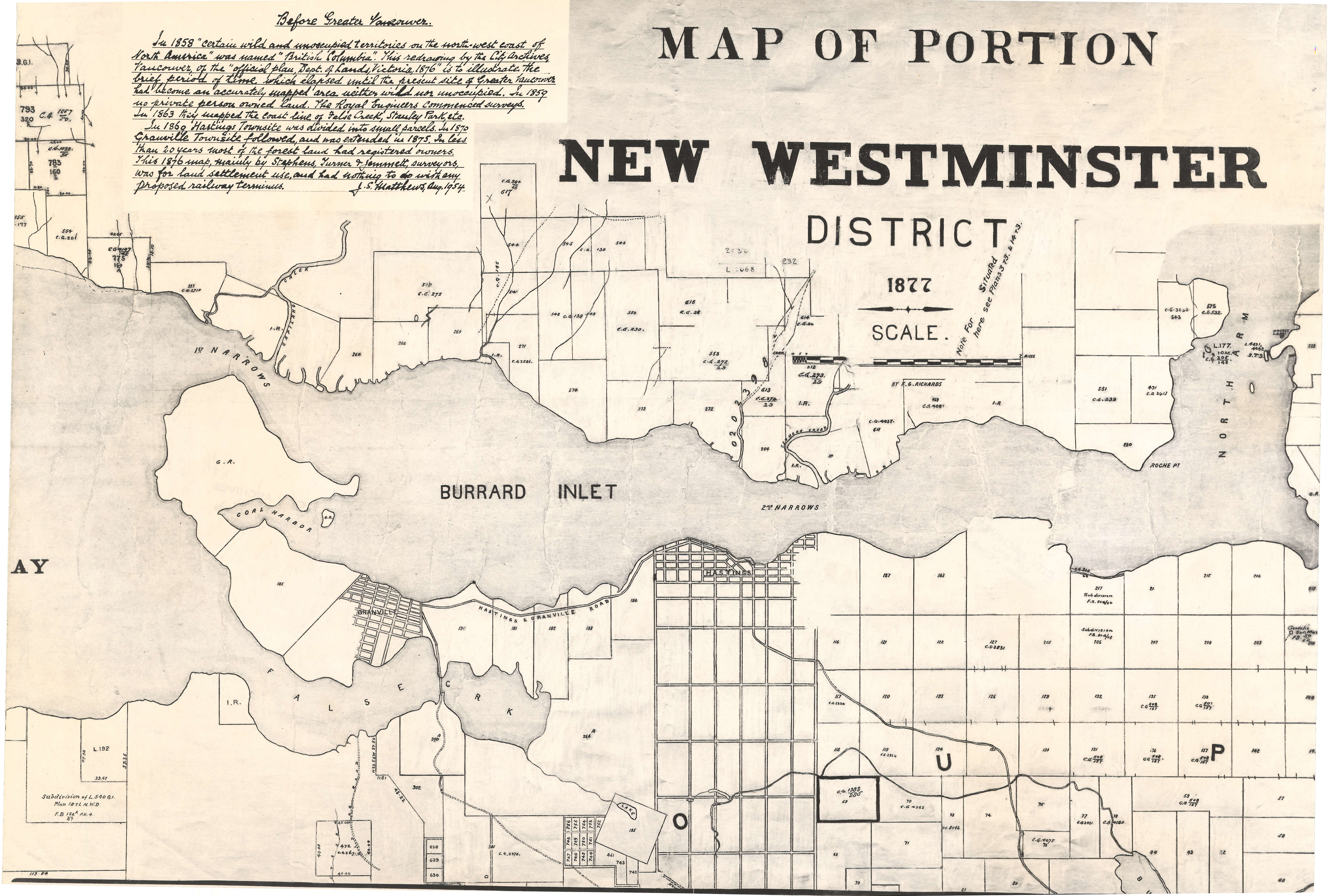 Item is an annotated tracing of a map showing the future sites of Vancouver, Burnaby and the North Shore from an area bordering on English Bay to an area bordering on North Arm. Traced over by J.S. Matthews in 1954, it illustrates intended land settlement and subdivision in 1877. Also shown are bodies of water, Hastings & Granville Road, and the settlements of Hastings and Granville. Annotations are an introductory note by Matthews in August 1954 titled "Before Greater Vancouver." Enclosed with the map are four letters between J.S. Matthews and W.H. Hutchinson, Chief of the Geographic Division of the B.C. Survey and Mapping Branch of the Department of Lands and Forests, in 1954 concerning the map's provenance and Matthew's efforts to increase the legibility of copies of the original map.